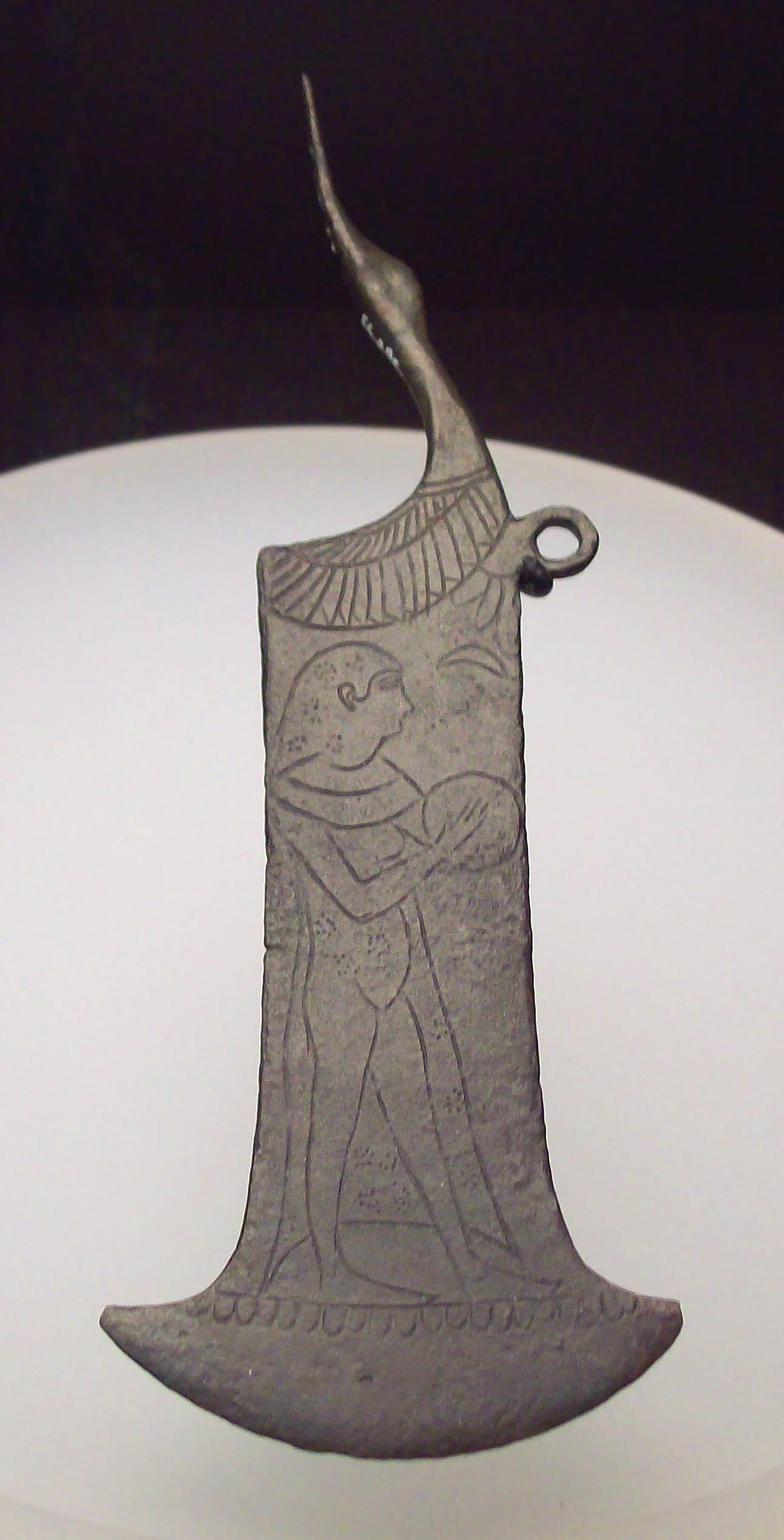 A Punic razor. Surfaces are engraved: a woman playing a tambourine, looking at the right, and wearing a cloak and headgear; below the ring (to hang the piece) it can be seen a half moon; the other side is decorated with a hawk and another figure, that it could be a feline. The opposite extreme of the cutting edge ends in an anatid's head, whose wings are engraved at the beginning of the blade.